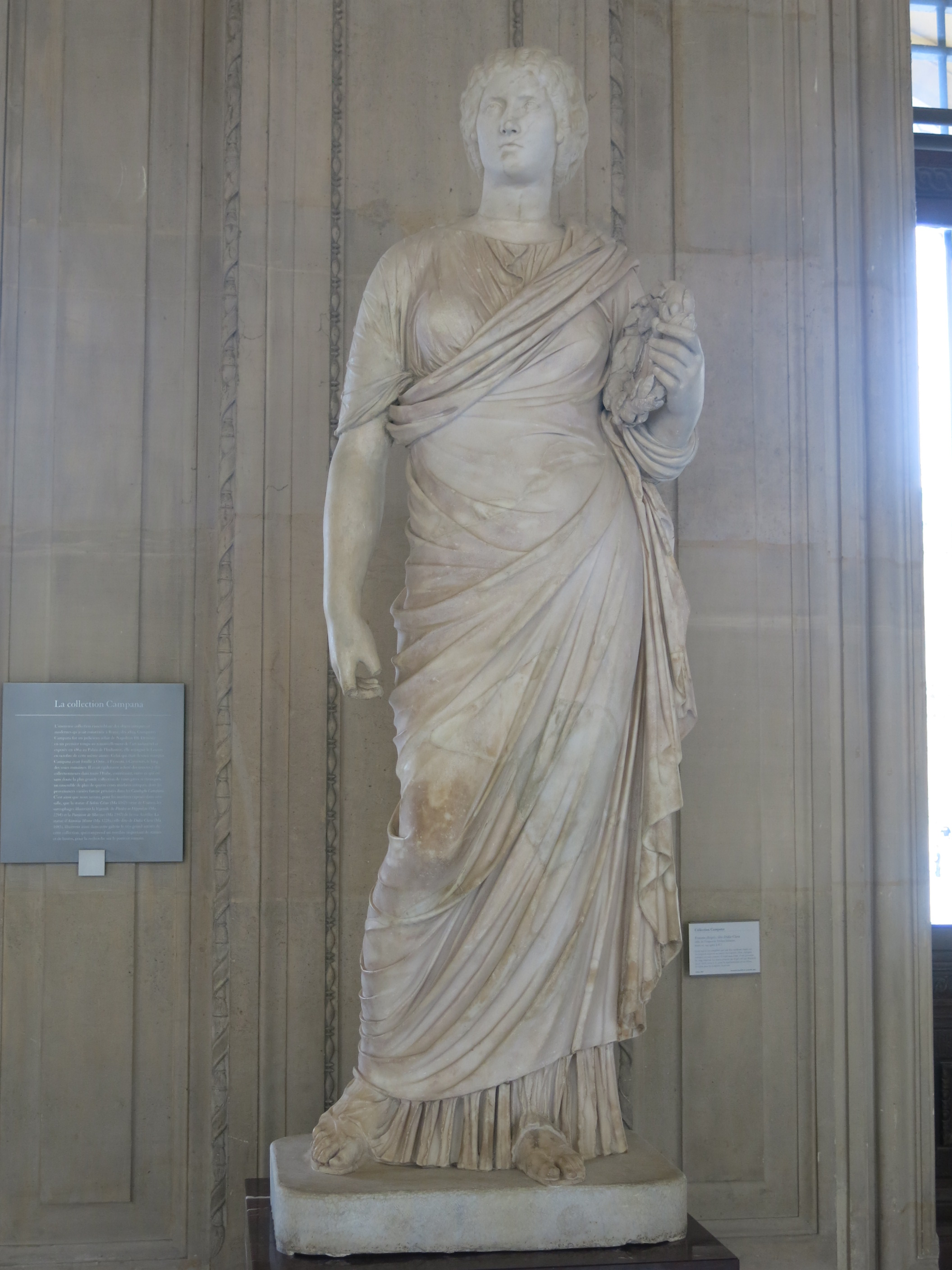 Woman wearing traditional cloth said to be Didia Clara (daughter of the emperor Didius Julianus dead in 193 AC). Louvre museum (Paris, France).